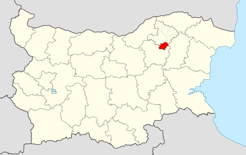 Location map of Loznitsa Municipality within Bulgaria and Razgrad Province. Equirectangular projection, N/S stretching 130 %. Geographic limits of the map: N: 44.4° N S: 41.1° N W: 22.1° E E: 28.9° E